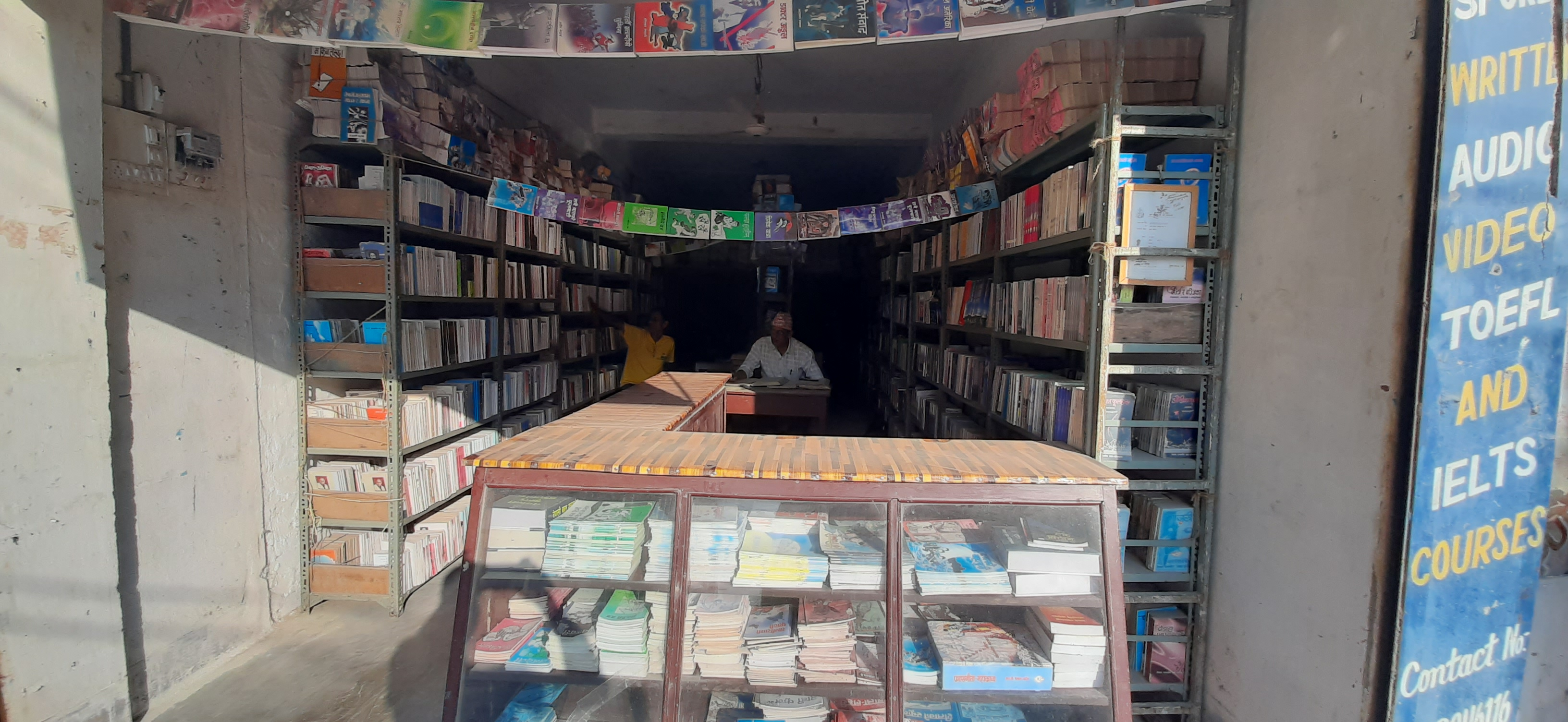 Sajha Prakashan Biratnagar